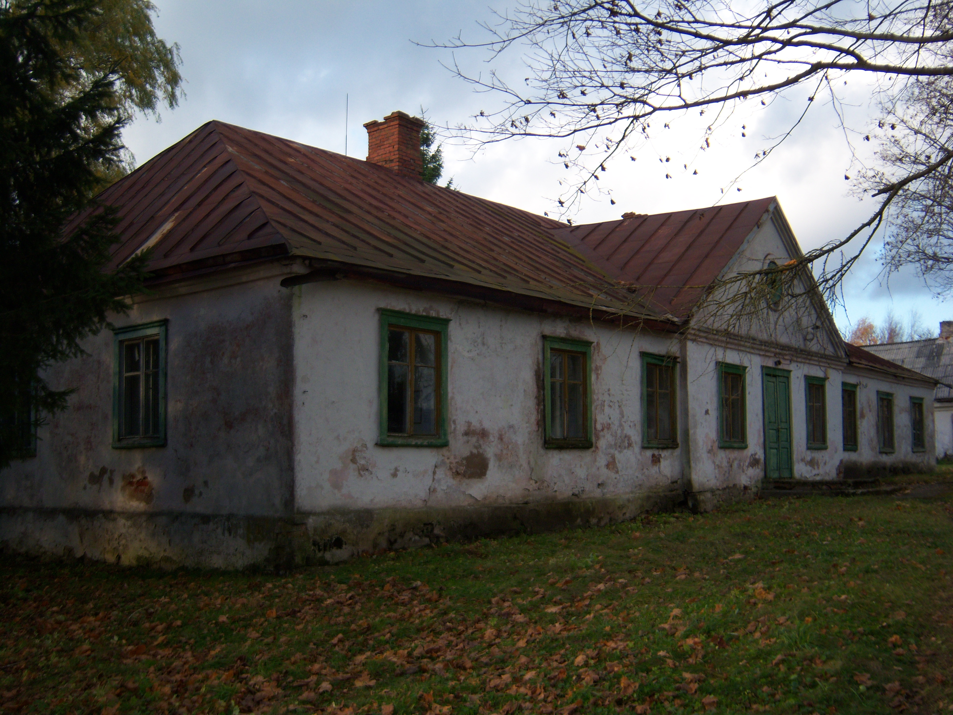 Former monastery, Surdegis, Anykščiai District, Lithuania